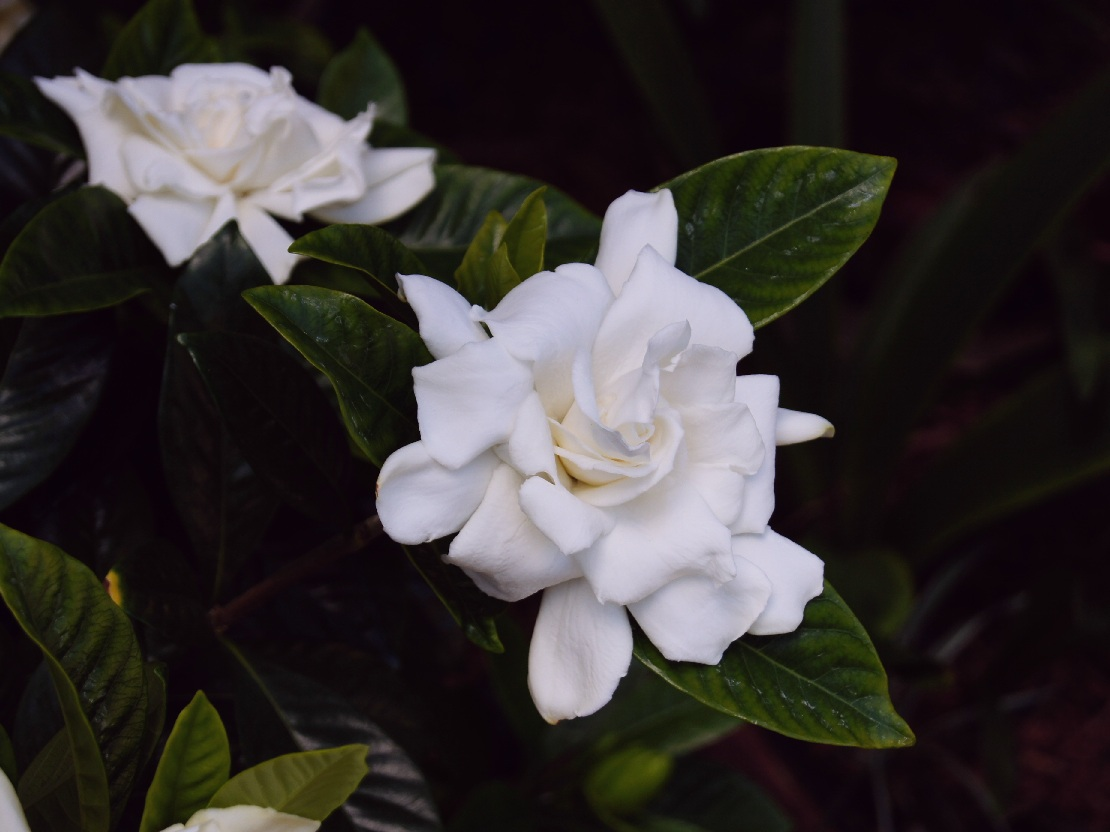 Gardenia jasminoides synonym Gardenia augusta cultivar "Magnifica" strongly perfumed flowers that turn yellow as they age.